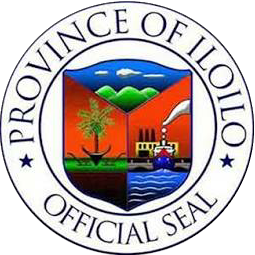 Provincial seal of Iloilo, Philippines.